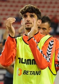 Francisco Trincão with SC Braga after an Europa League qualifying game against FC Spartak Moscow.